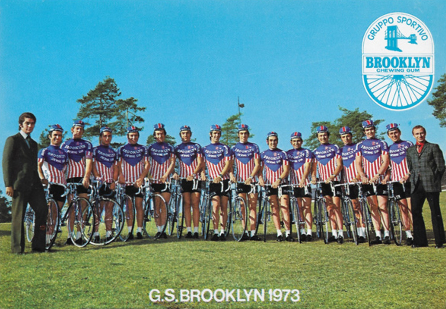 Brooklyn cycling team 1973 postcard